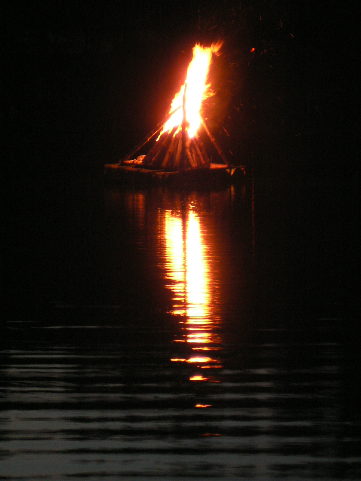 Szent Iván-éji tűzgyújtás a tavon